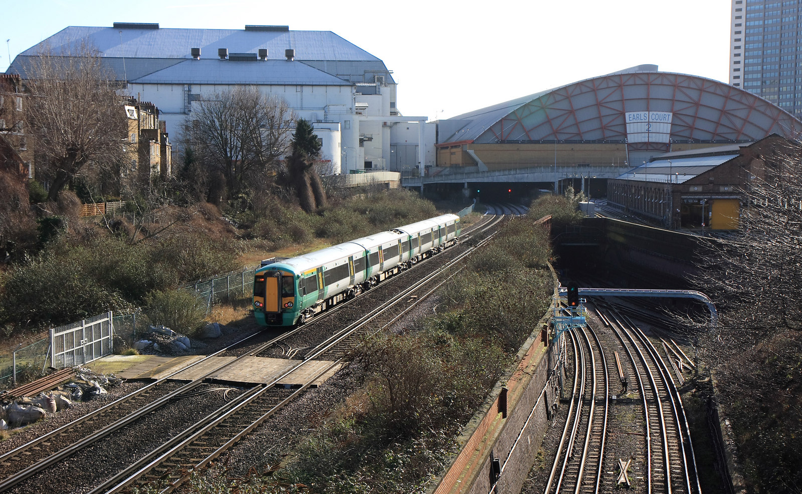 Rails Through Earls Court Looking southeast towards Earls Court Exhibition Centre from the A4 West Cromwell Road, with the original Earls Court 1 building on the left. A Southern service can be seen heading south along the West London Line towards Clapham Junction from where it will continue to its ternminus at East Croydon. The tracks to the right of centre, in a brick lined cutting, are the District Line route from Kensington Olympia. The junction connects them to the main east-west District Line route between Earls Court and West Kensington stations. The building on the right of the photo is the permanent shed of London Underground's Lillie Bridge works. It was originally a trainshed for the Piccadilly Line.